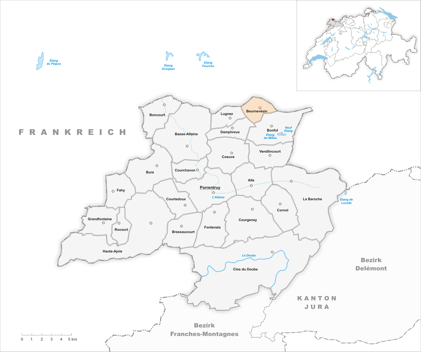 Municipality Beurnevésin